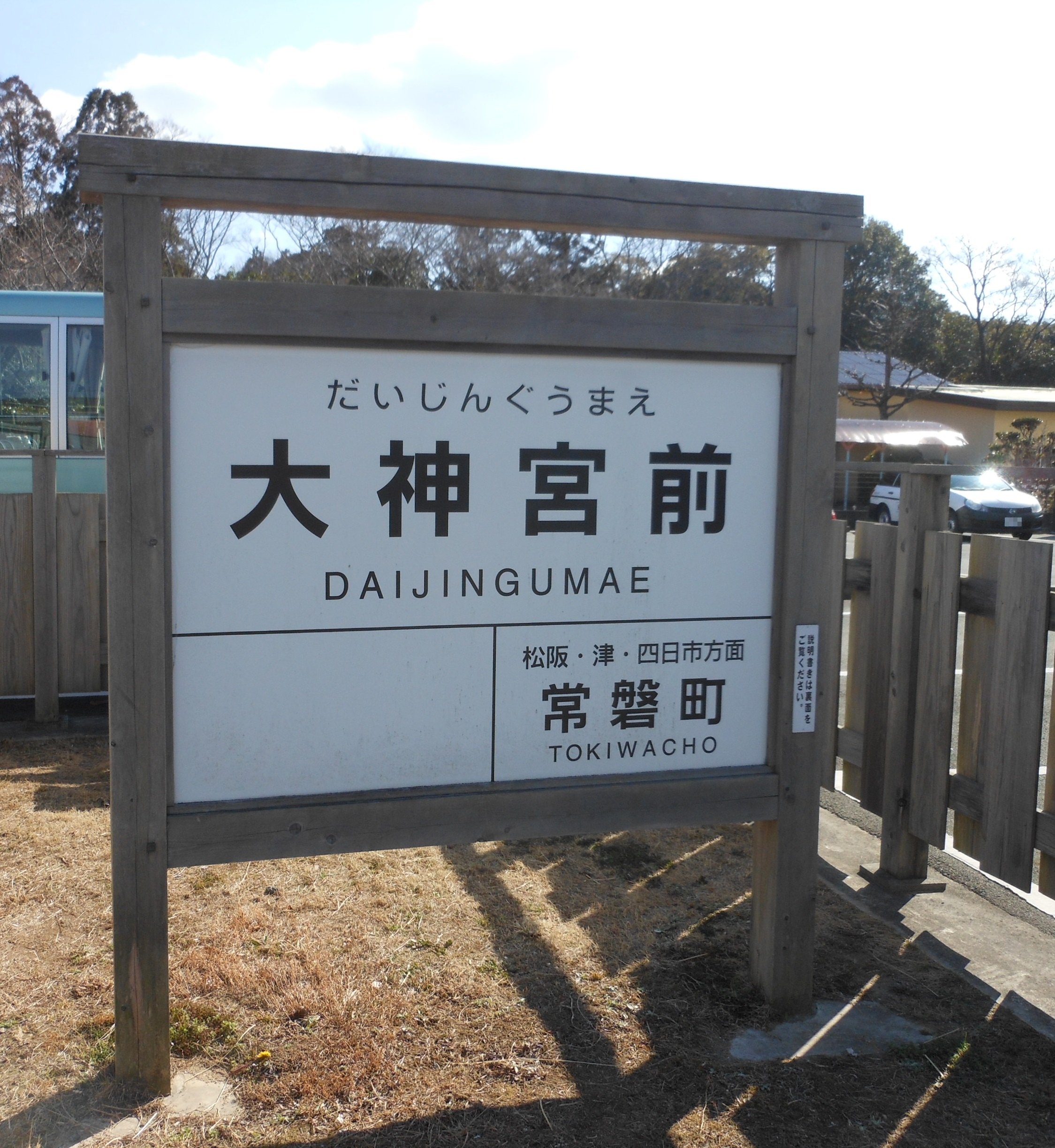 This is a monument of station sign.